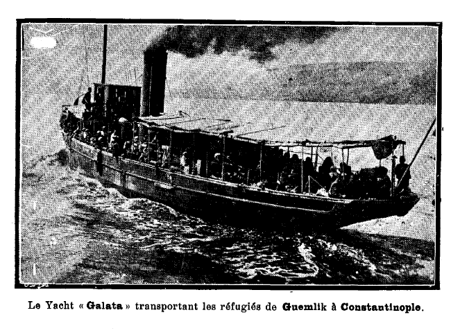 Date: 1921.